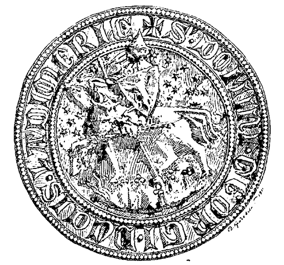 Seal of Yurii I king of Rus, prince of Ladimeria (coat of arms)